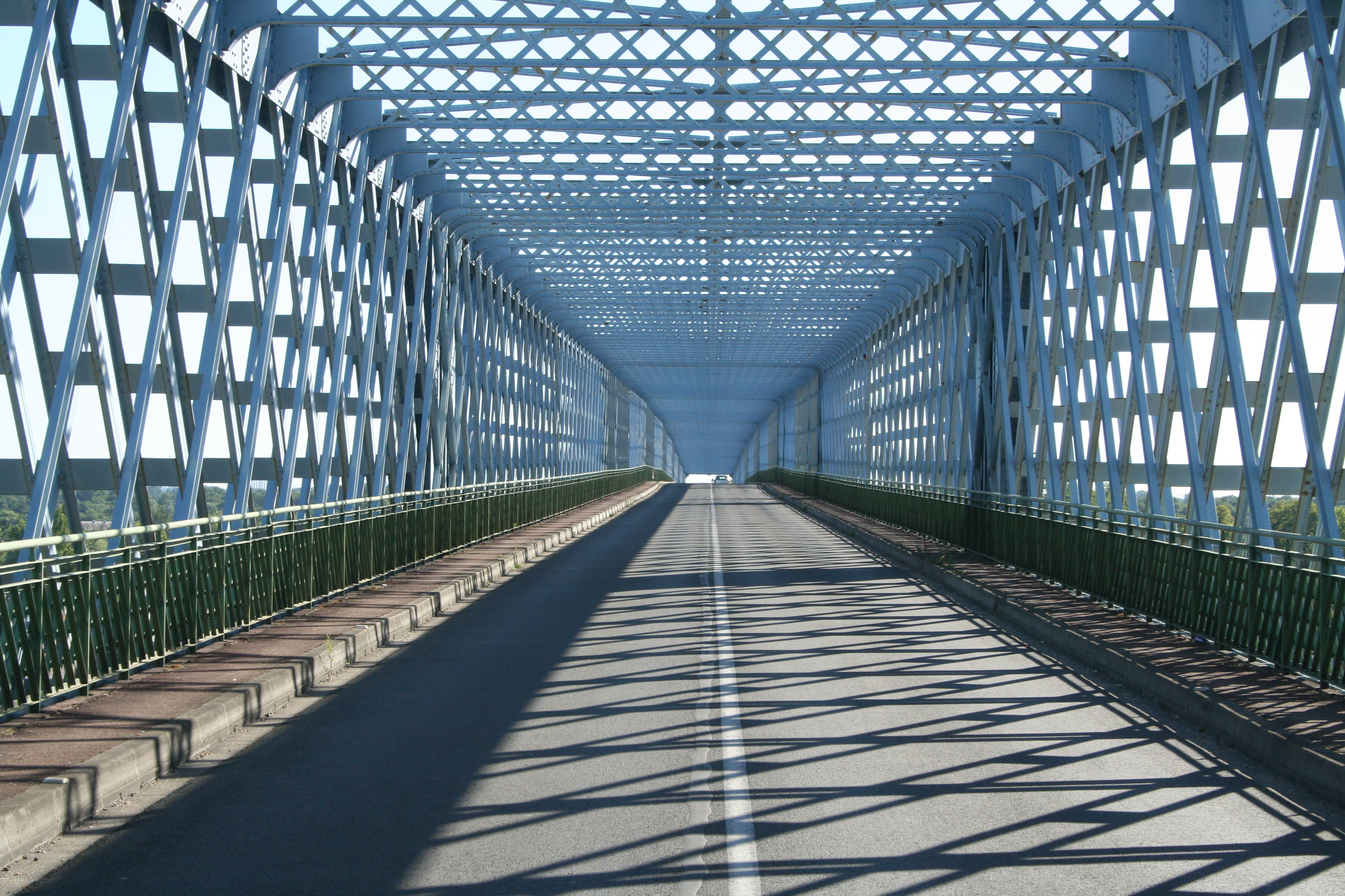 The Eiffel bridge in Cubzac-les-Ponts.